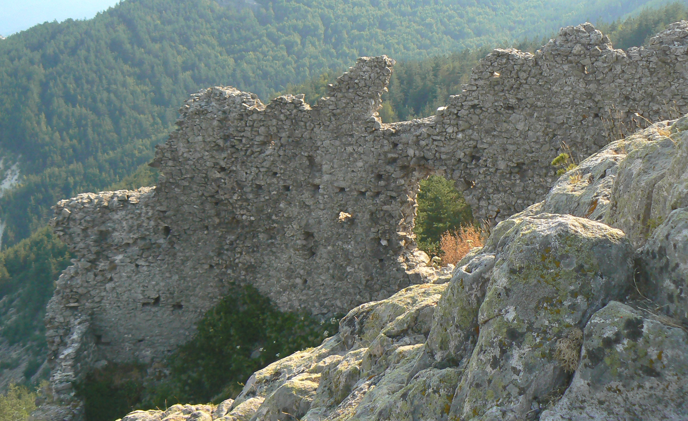 View from inside at the wall of Ustra fortress, Rhodope Mountains, Bulgaria